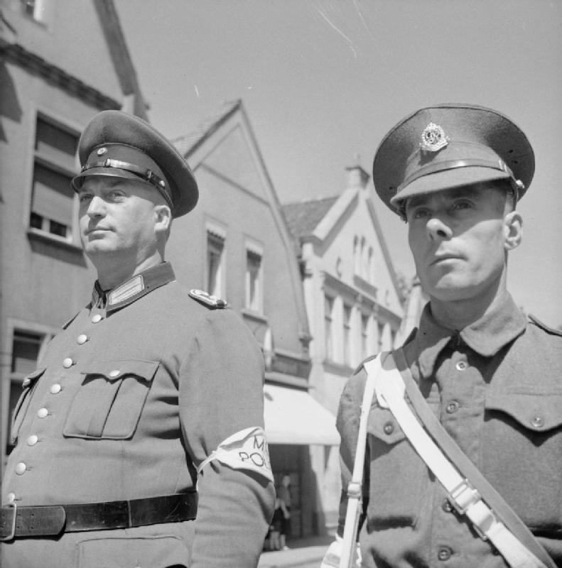 Germany Under Allied Occupation A German policeman with a member of the British Military Police in Burgsteinfurt, Westphalia.